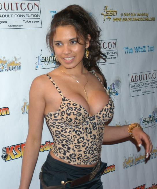 March 8, 2007: Jack Lawrence's 40th Birthday Party